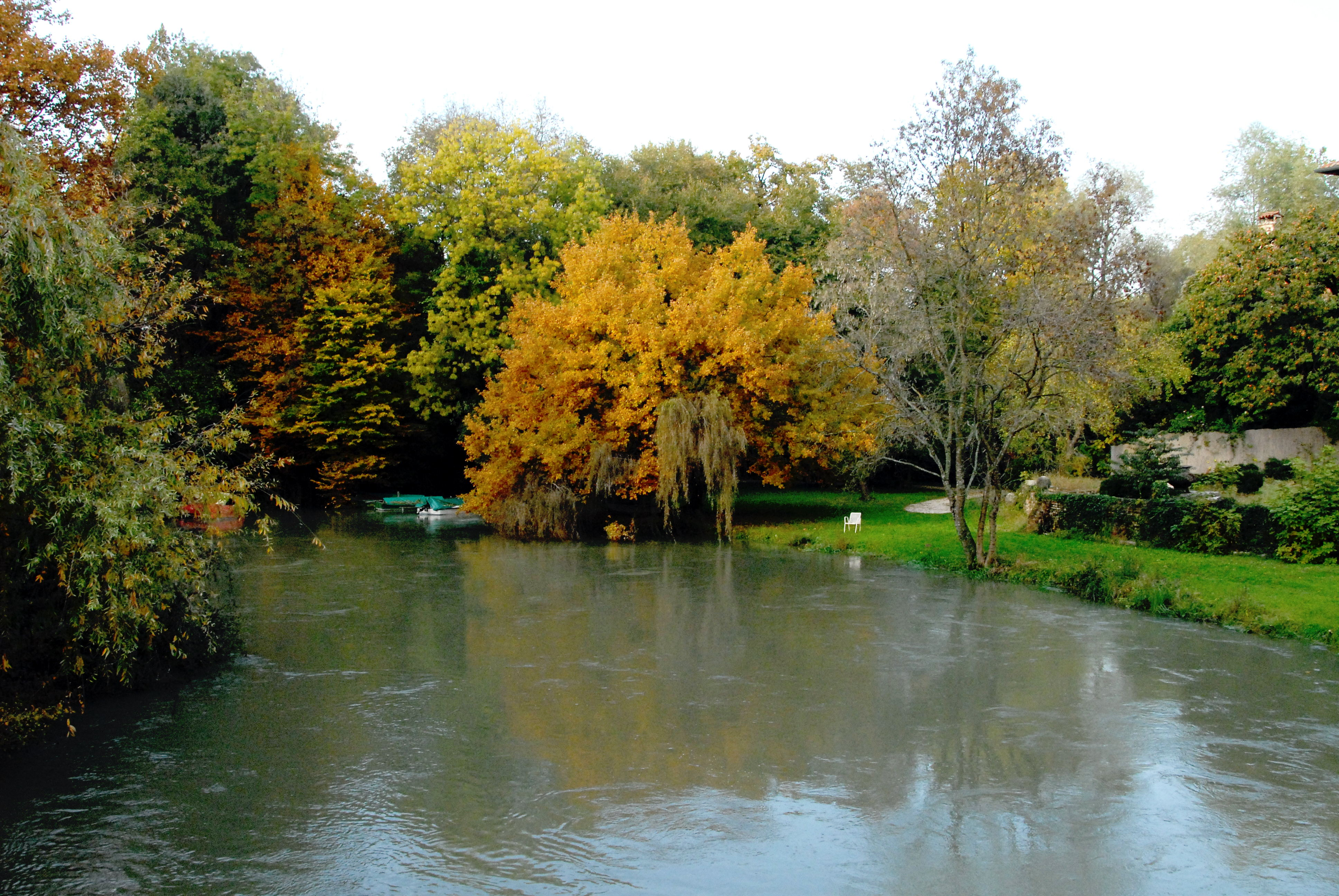 River Stella near the Villa Savorgnan at Ariis in the community Rivignano, province of Udine, region Friuli Venezia-Giulia, Italy